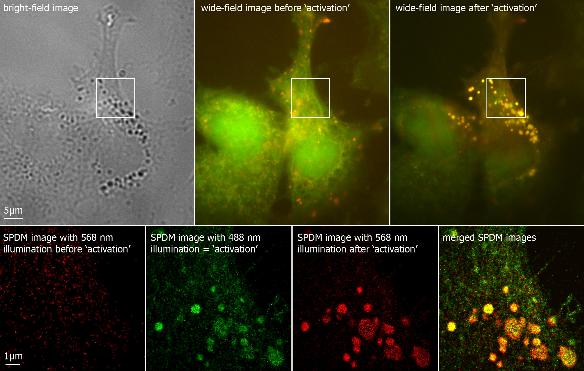 First description of 50 nm optical resolution of cellular structures in label-free cells: Interestingly SPDM revealed cellular objects not detectable under conventional light microscopy Comprehensive studies published in Micron, 2010: The paper describes for the first time that optical resolution of cellular structures in the lamda/10 range (about 50 nm) can be achieved even in label-free cells using the localization microscopy SPDM (Spectral Precision Distance/Position Determination Microscopy). Beside a substantial resolution improvement of autofluorescent structures, SPDM revealed cellular objects with are not detectable under conventional fluorescence imaging conditions. Rainer Kaufmann, Patrick Müller, Michael Hausmann, Christoph Cremer: Imaging label-free intracellular structures by localisation microscopy. Micron (2010)